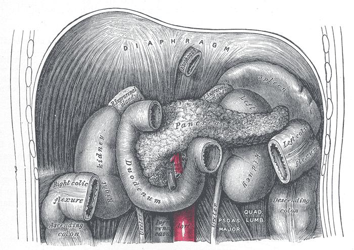 Pancreas